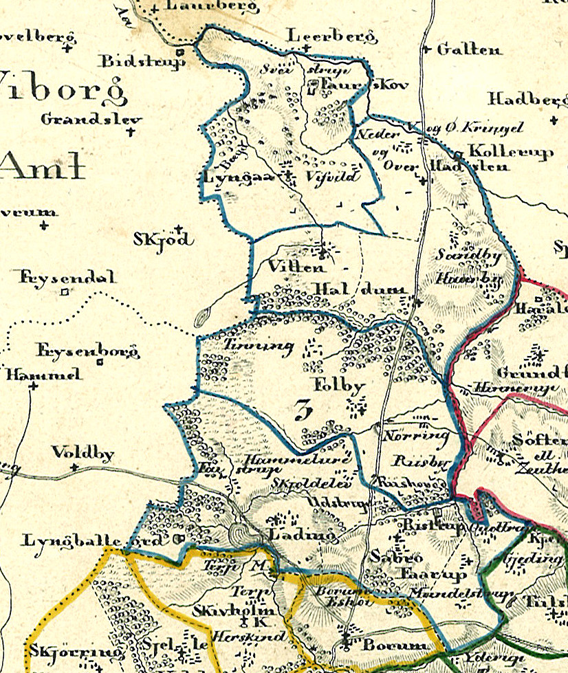 Sabro Herred, Århus Amt 1826, Denmark.